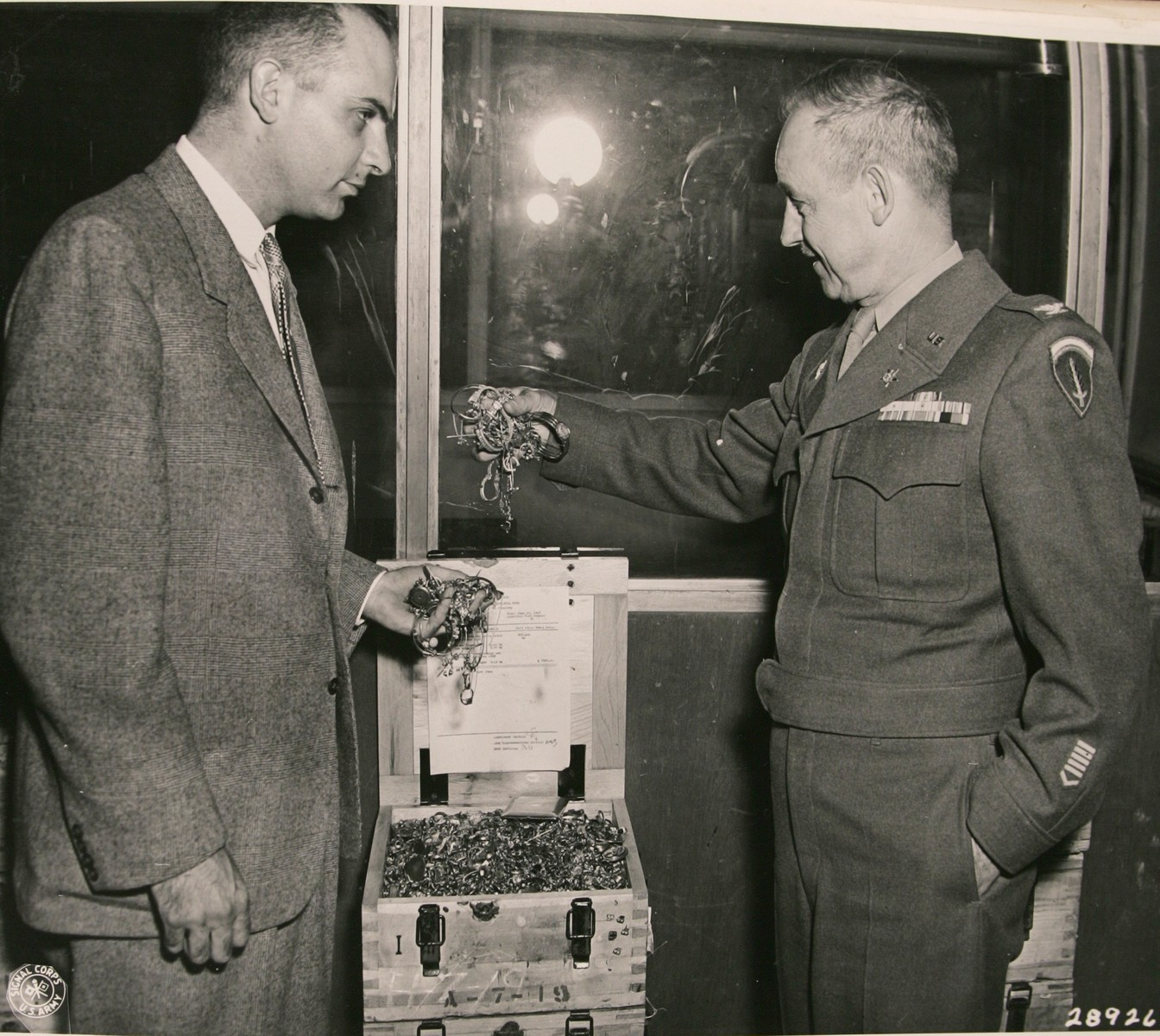 Abba P. Schwartz, property control director for the Intergovernmental Committee on Refugees (left), and Col. William G. Brey, chief of the Foreign Exchange Depository (right), view a crate of gold and silver jewelry confiscated by the Germans during World War II. National Archives and Records Administration, College Park Copyright: Public Domain Source Record ID: 111-SC-289261 Second Record ID: Signal Corps #EUCOM-47-02650